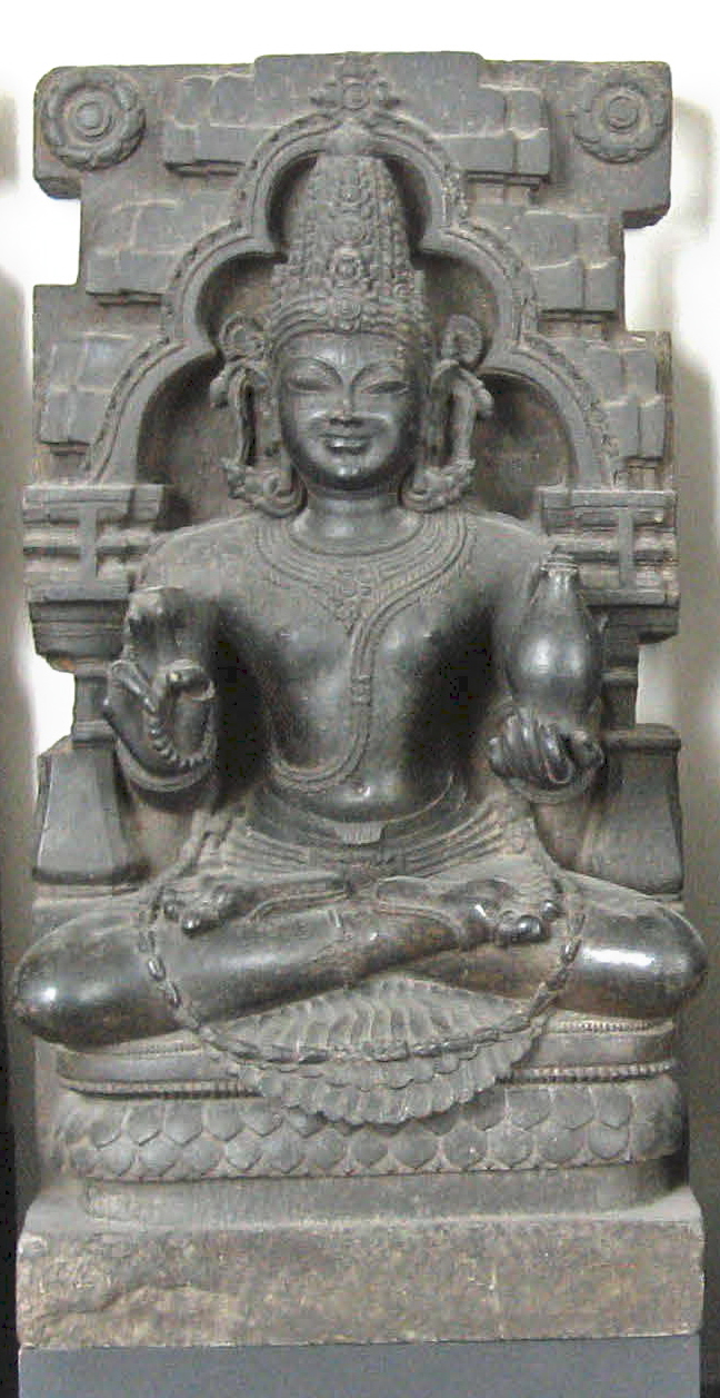 Shani, Hindu god of Saturn, British Museum